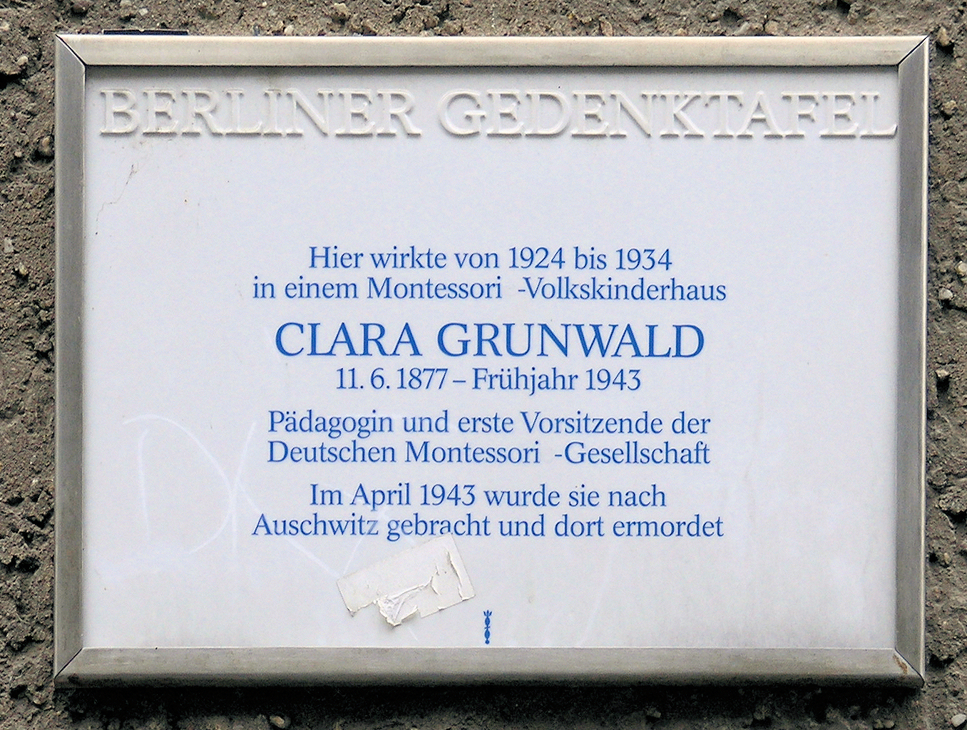 Berlin memorial plaque, Clara Grunwald, Scharnweberstraße 19, Berlin-Friedrichshain, Germany